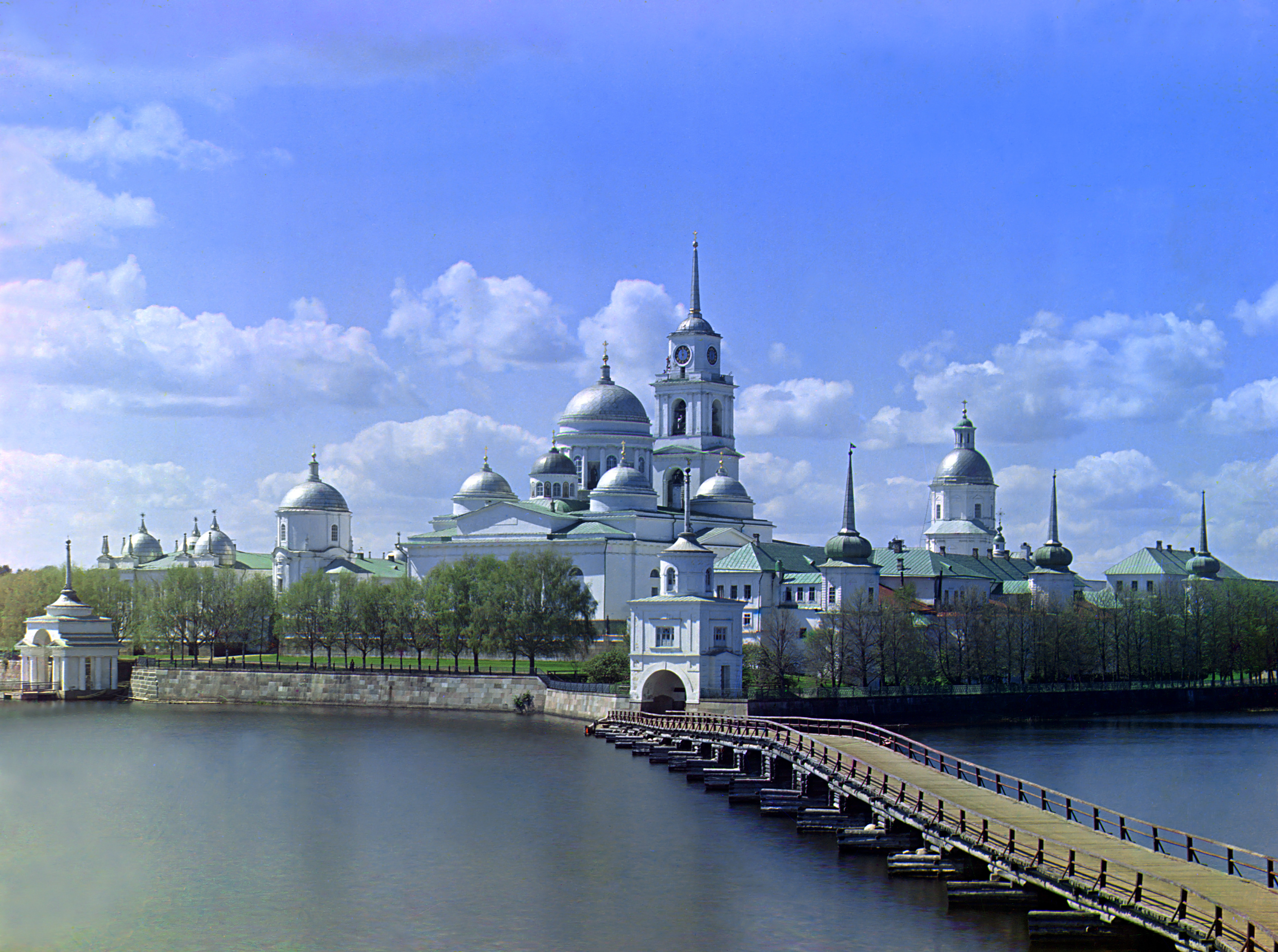 Early color photograph from Russia, created by Sergei Mikhailovich Prokudin-Gorskii as part of his work to document the Russian Empire from 1909 to 1915. The Monastery of St. Nil on Stolobnyi Island in Lake Seliger in Tver Province. Full caption from The Library of Congress exhibition "The Empire That Was Russia: View of the Nilova Monastery. The Monastery of St. Nil' on Stolobnyi Island in Lake Seliger in Tver' Province, northwest of Moscow, illustrates the fate of church institutions during the course of Russian history. St. Nil (d. 1554) established a small monastic settlement on the island around 1528. In the early 1600s his disciples built what was to become one of the largest, wealthiest, monasteries in the Russian Empire. The monastery was closed by the Soviet regime in 1927, and the structure was used for various secular purposes, including a concentration camp and orphanage. In 1990 the property was returned to the Russian Orthodox Church and is now a functioning monastic community once